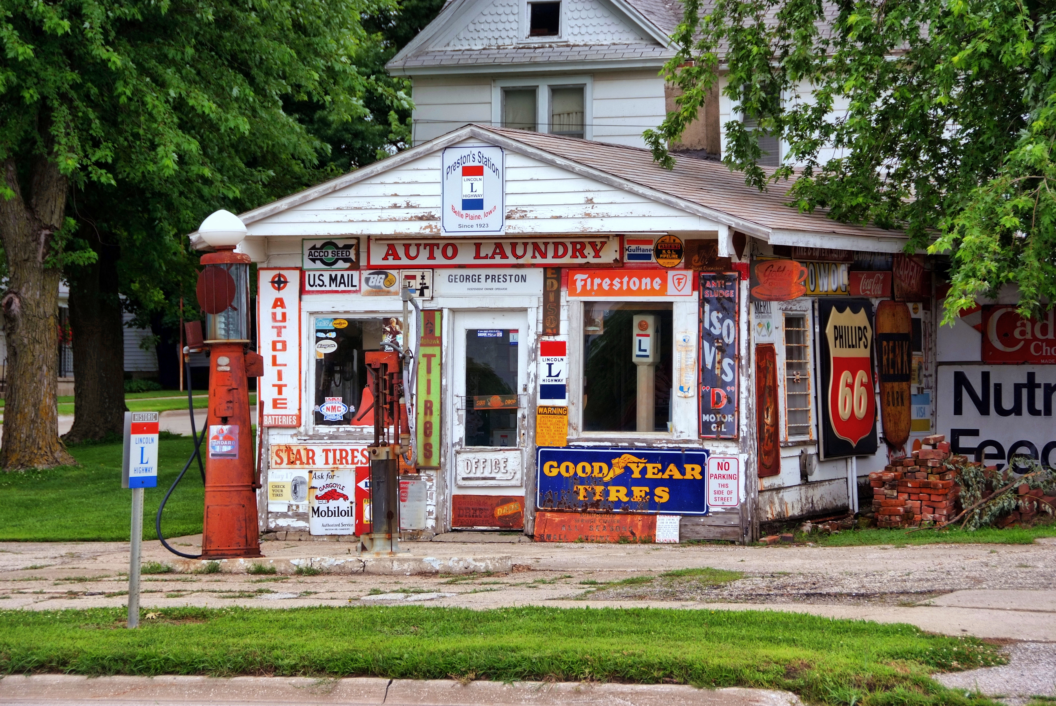 Preston's Service Station, Since 1923, Belle Plaine, IA